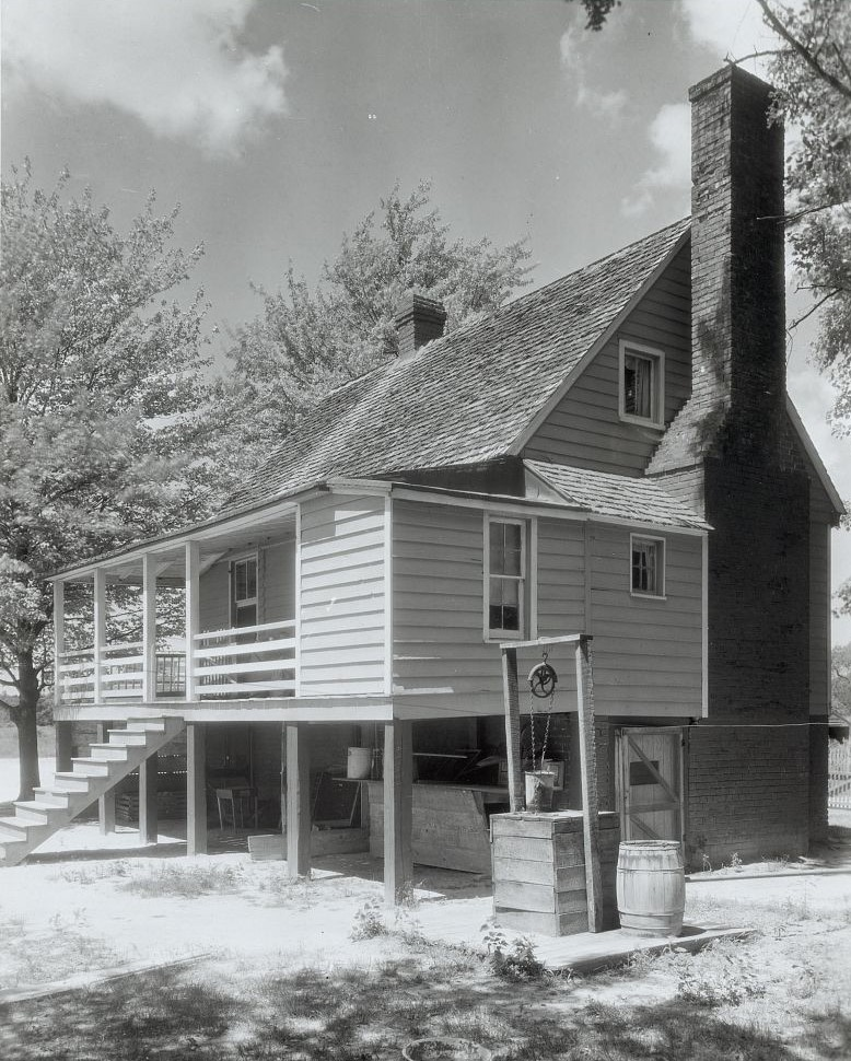 Title Mangohick Village house, Mangohick Village, King William County, Virginia Contributor Names Johnston, Frances Benjamin, 1864-1952, photographer Created / Published 1935. Subject Headings - United States--Virginia--King William County--Mangohick Village. - Wells. - Porches. - Clapboard siding. - Houses. - Virginia--King William County--Mangohick Village Format Headings Photographic prints. Notes - Title from photographer's inventory. - Corresponding Carnegie Survey of the Architecture of the South neg. no. VA-1966. The negative has deteriorated. - Forms part of: Carnegie Survey of the Architecture of the South (Library of Congress). Medium 1 photographic print. Call Number/Physical Location LOT 11841-51 [item] [P&P] Repository Library of Congress Prints and Photographs Division Washington, D.C. 20540 USA Digital Id csas 04978 //hdl.loc.gov/loc.pnp/csas.04978 Control Number csas200905048 Reproduction Number LC-DIG-csas-04978 (digital file from photographic print) Rights Advisory No known restrictions on publication. Online Format image Description 1 photographic print.